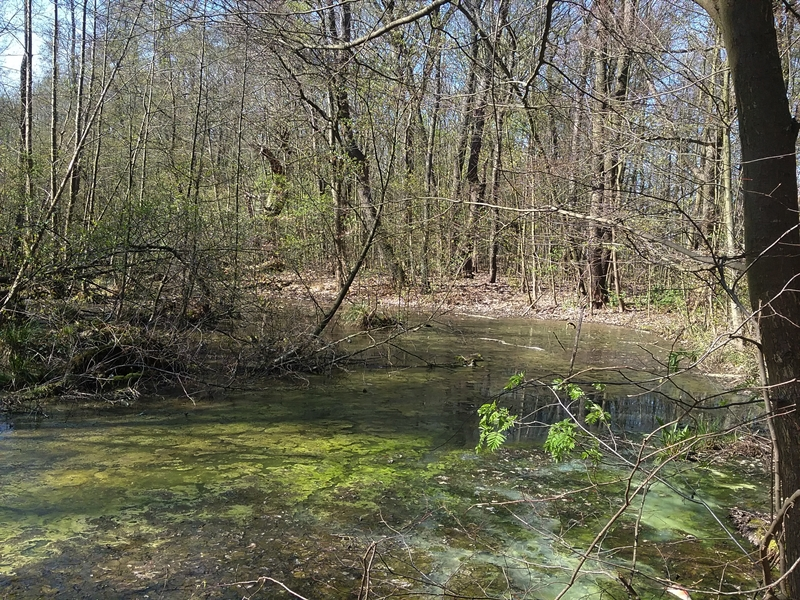 The Thyrn am Müggelsee is a lying on Müggelsee shore natural waters, eutrophic moorland and a biotope in Berlin's Köpenick district of the district of Treptow-Köpenick.